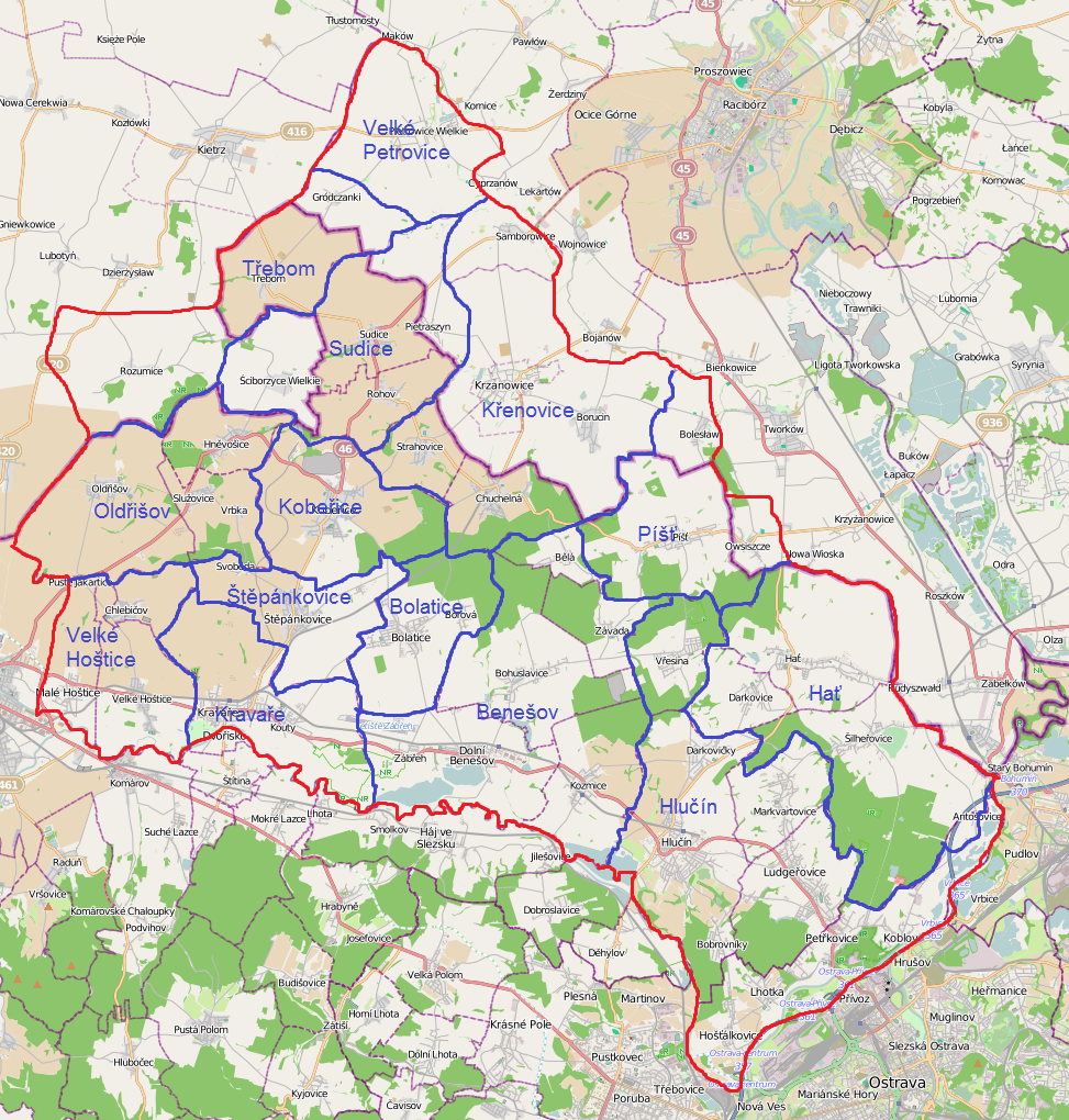 Hlučín Deanery with parish boundaries (1863) This map of Hlučín, Ostravský kraj, Czech Republic was created from OpenStreetMap project data, collected by the community. This map may be incomplete, and may contain errors. Don't rely solely on it for navigation.